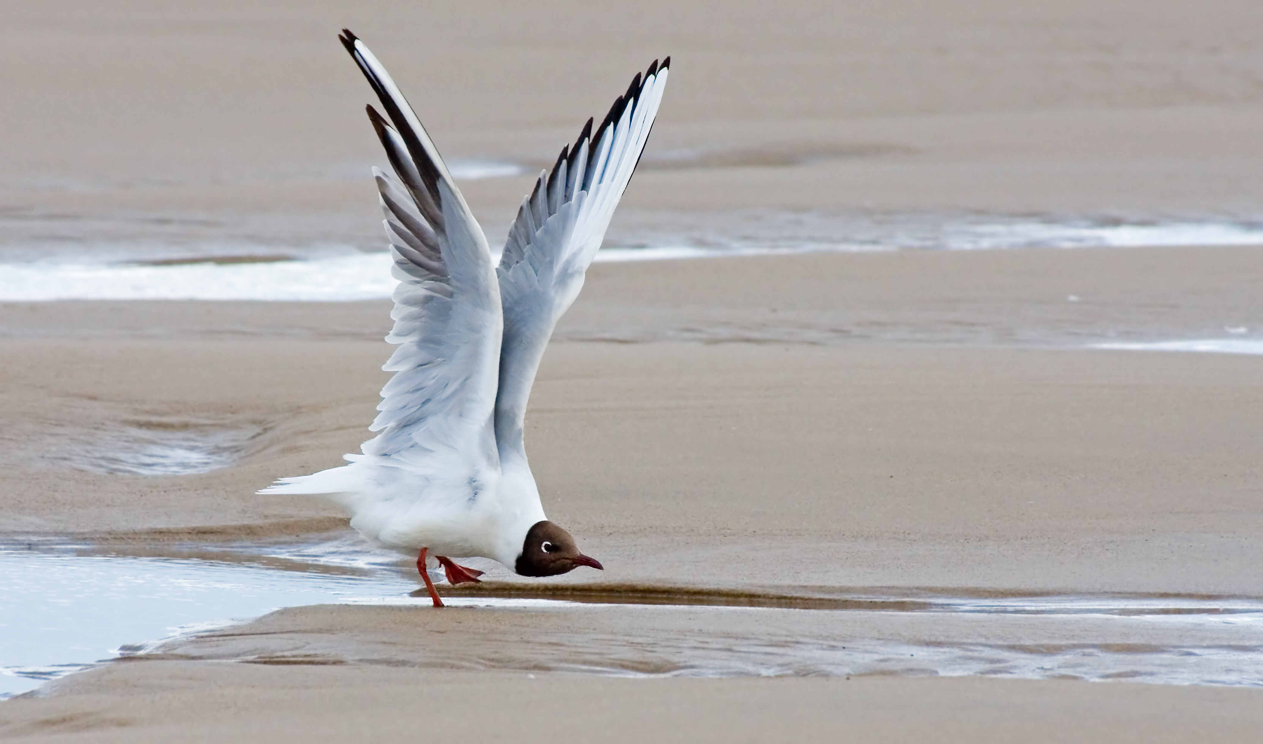 Black-headed Gull, Chroicocephalus ridibundus (formerly Larus ridibundus) at Blakeney Point in the English county of Norfolk.